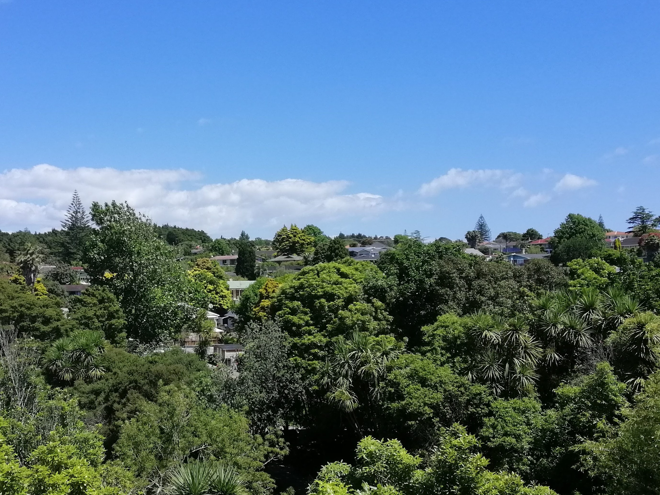 View over the Hill Park Suburb from Orams Bridge